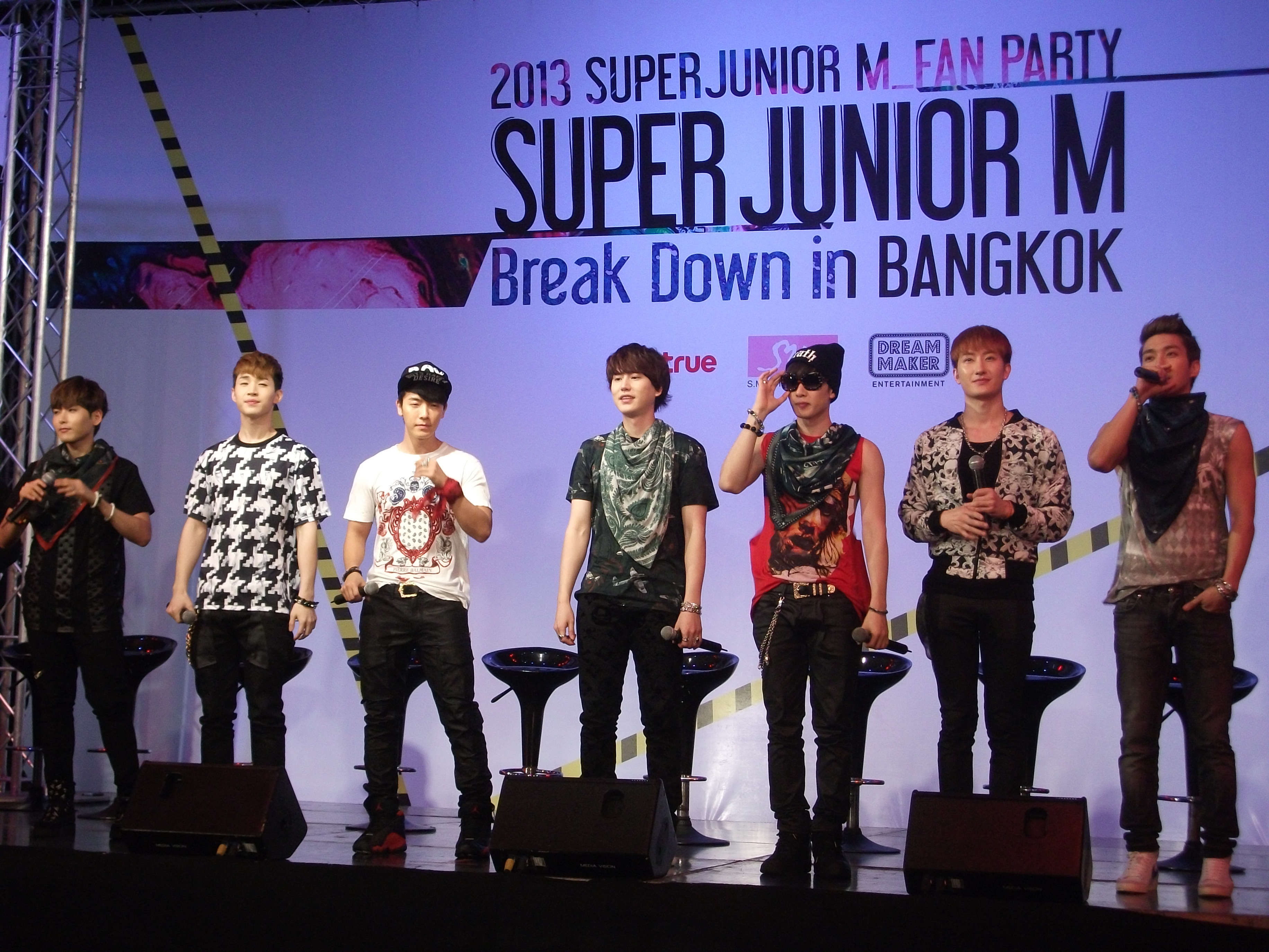 Super Junior M at press conference of Super Junior M Breakdown in Bangkok